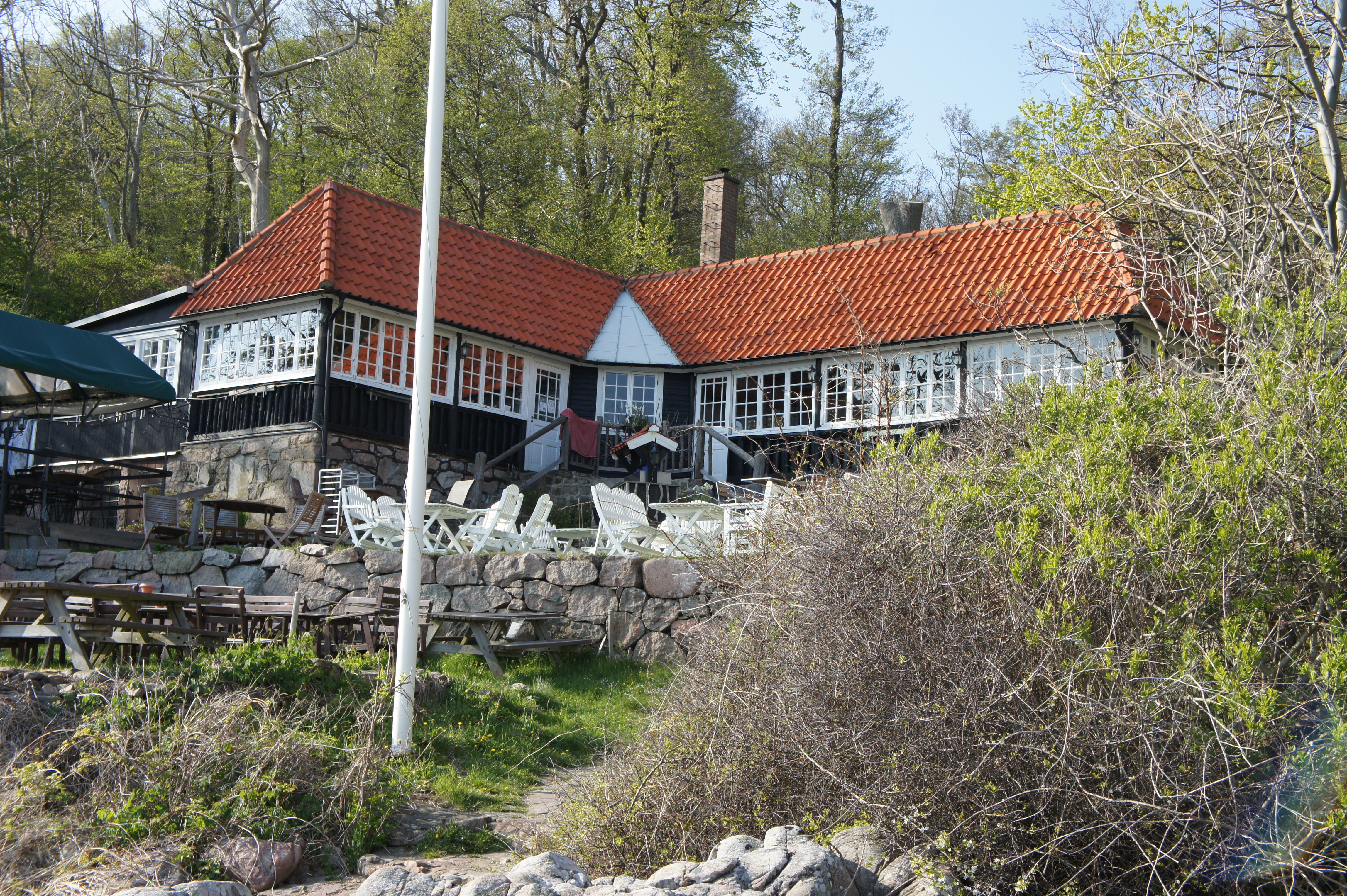 The coffee-house at Ransvik, Mölle, Sweden